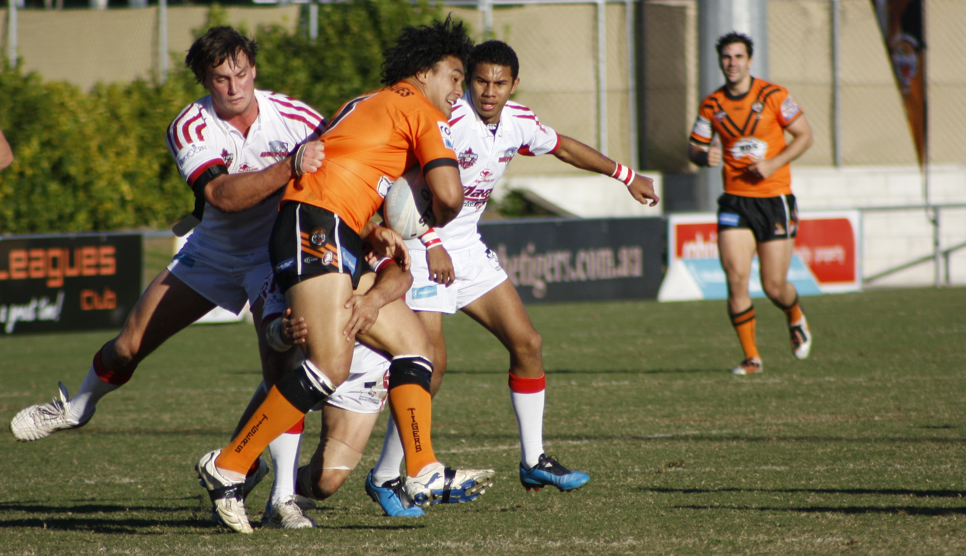 Easts player tackled by Redcliffe Dolphins at Langlands Park, Brisbane Australia